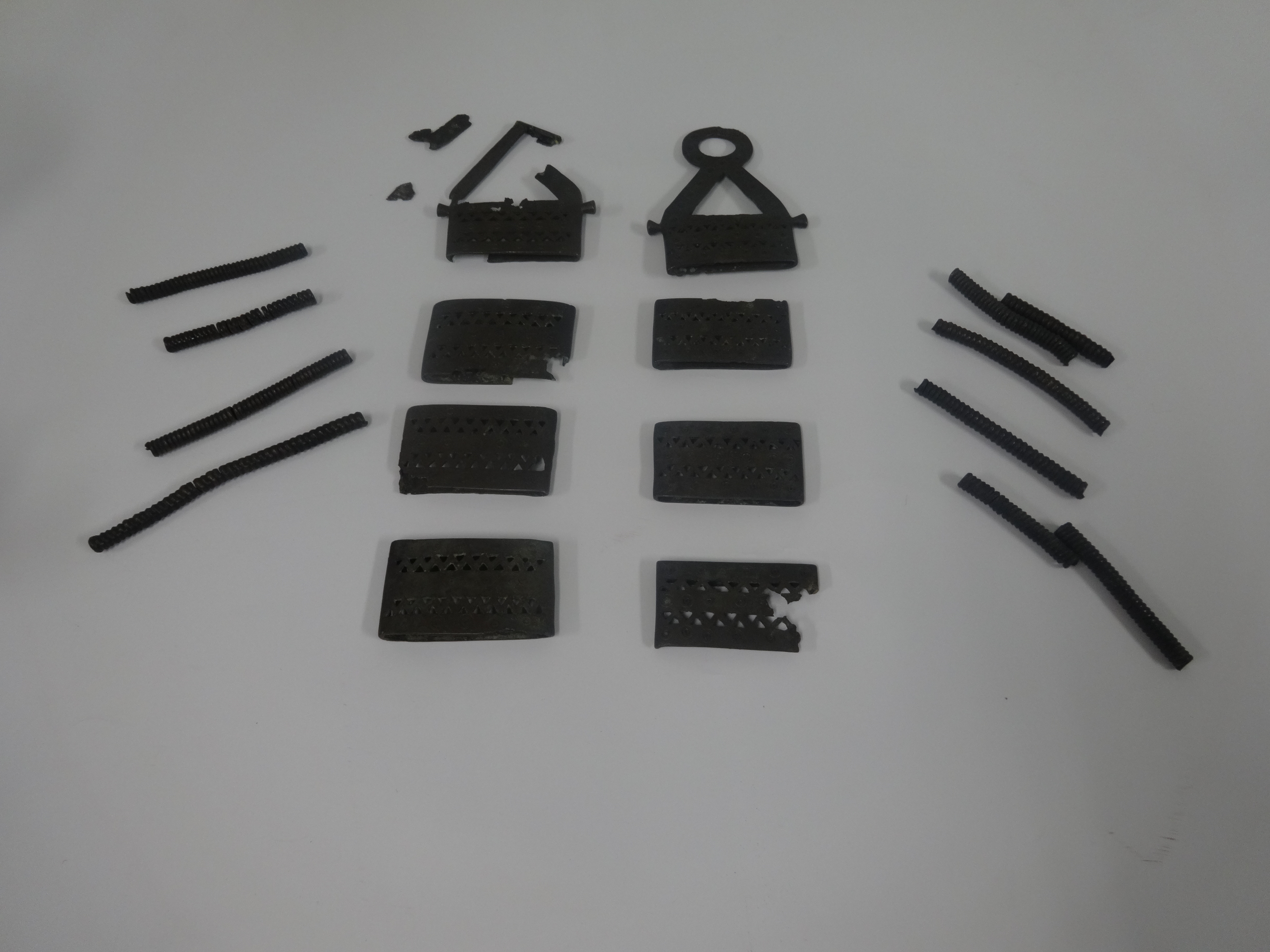 Bronze belt from Lazar's cave